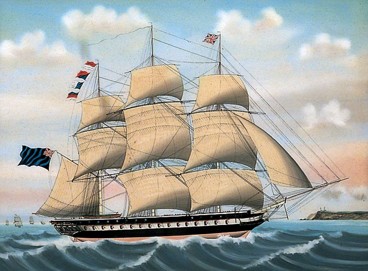 HMS 'Arethusa', by P.W. Medium oil on glass Measurements H 47.3 x W 60 cm Accession number Oil/FS/46